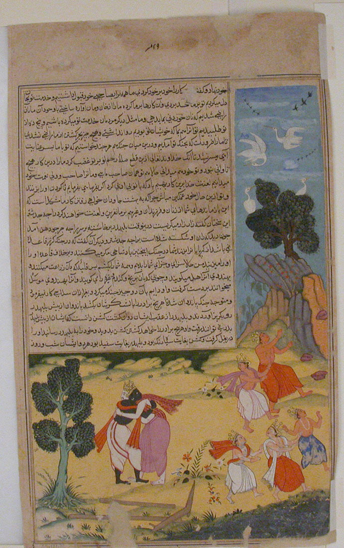 Illustrated manuscript, folio